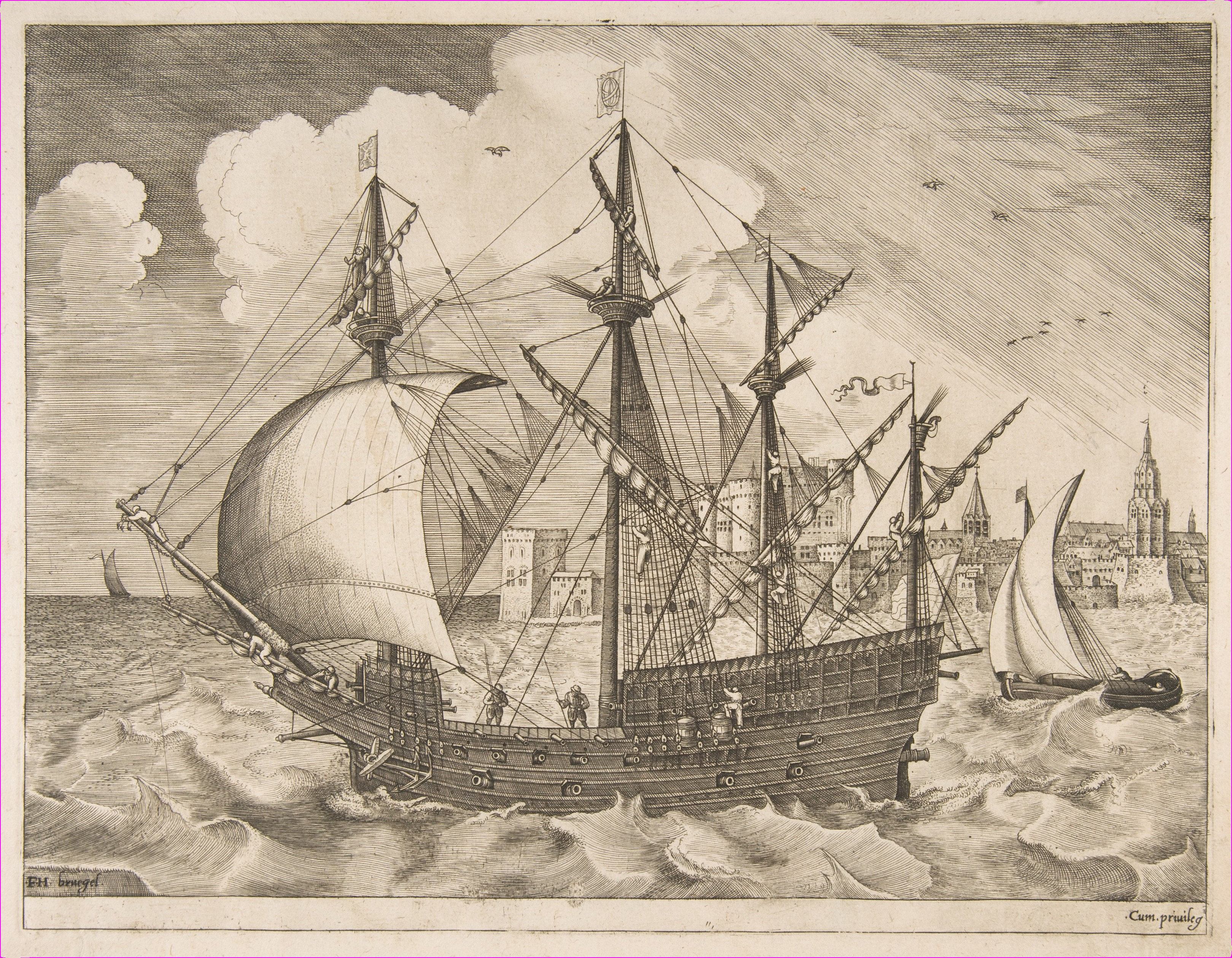 Print; Prints